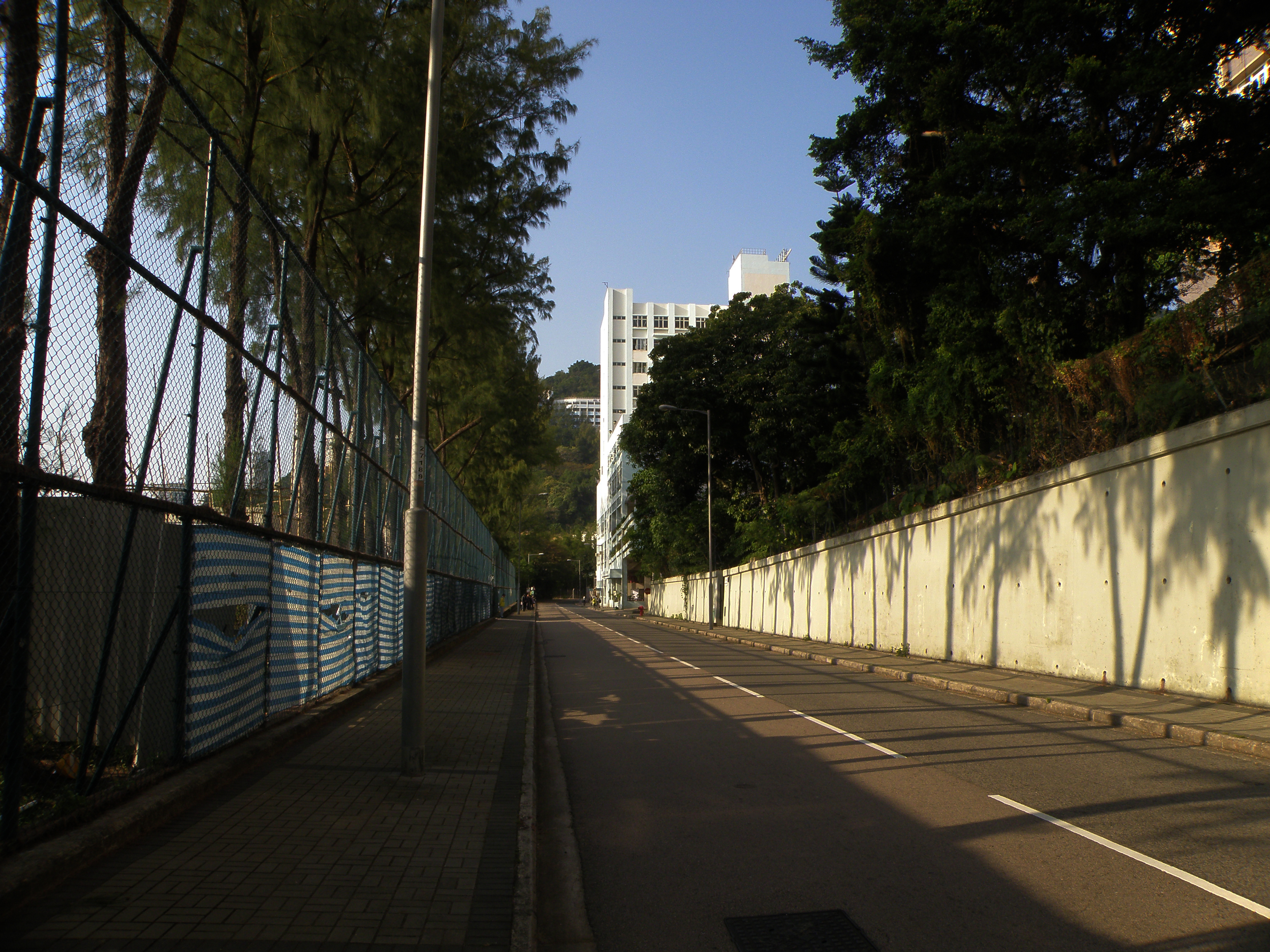 Sha Wan Drive in Pok Fu Lam, Hong Kong.